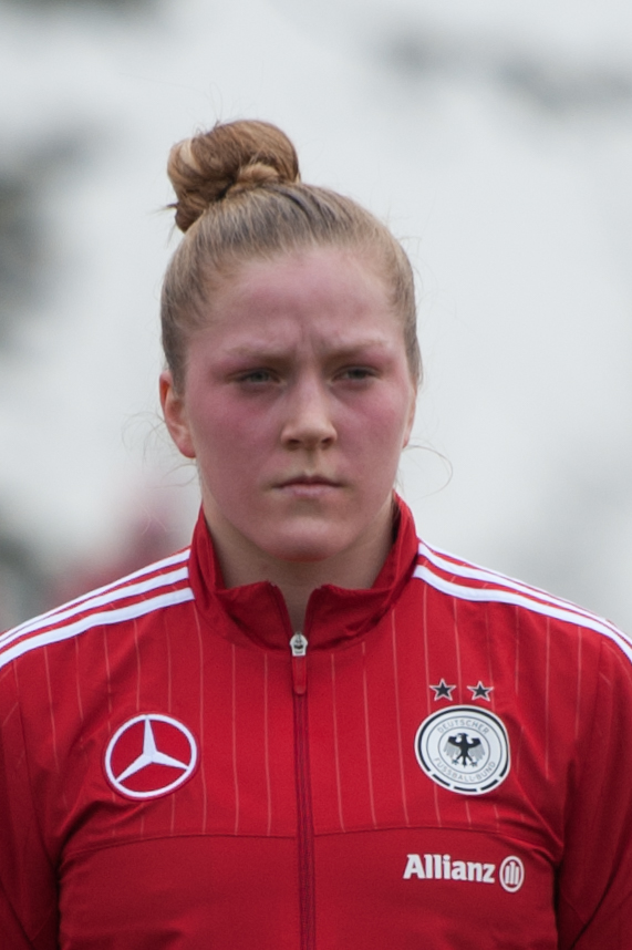 UEFA European Women's U17 Championship elite round Germany vs. Switzerland, 2016-03-19